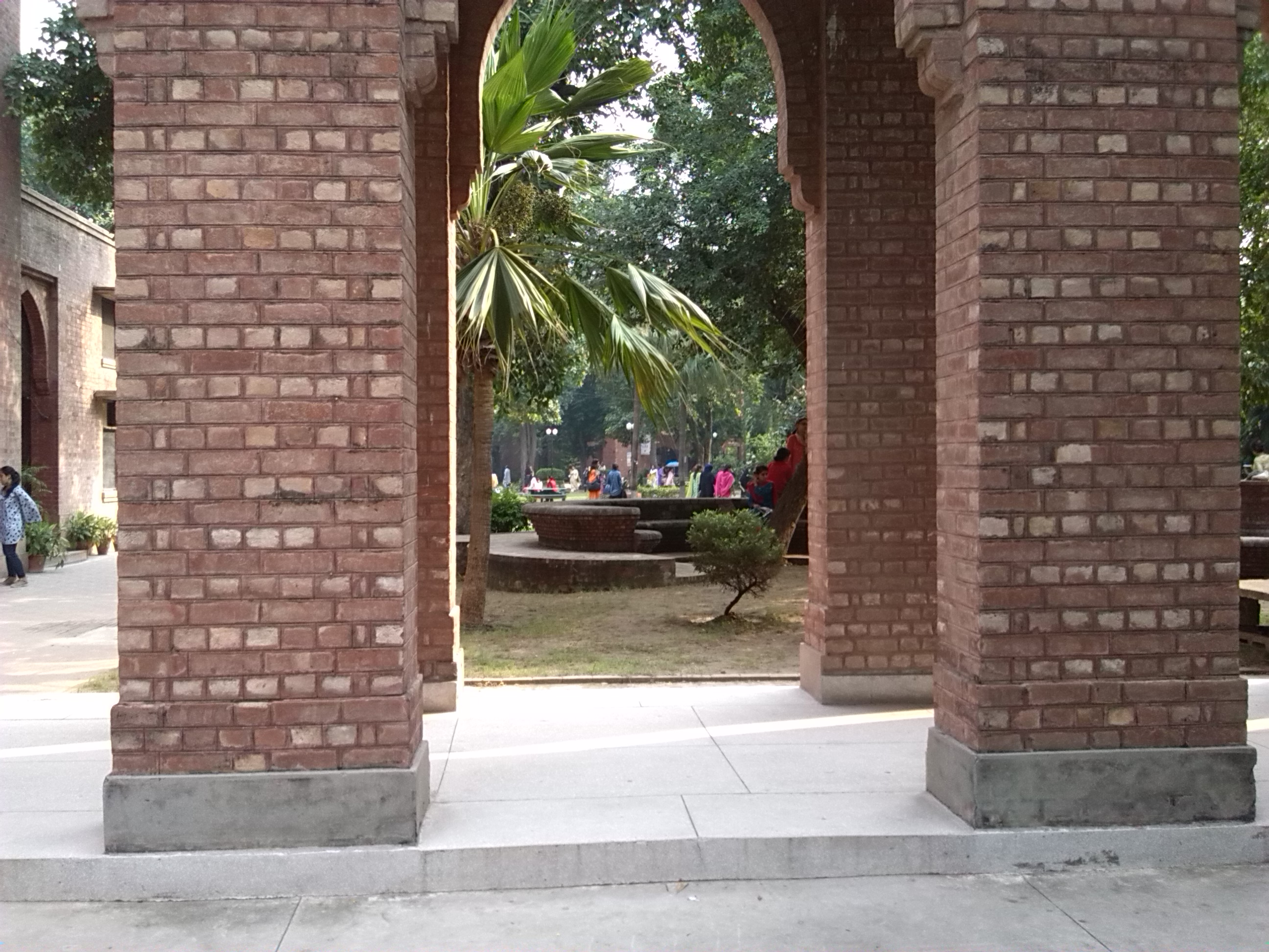 Kinnaird College This is a photo of a monument in Pakistan identified as the PB-P-88